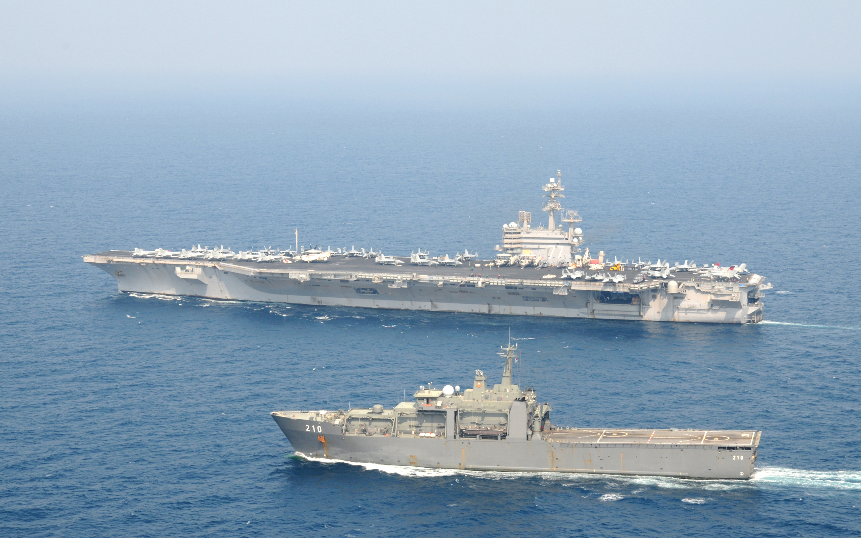 ARABIAN SEA (Nov. 15, 2011) The aircraft carrier USS George H.W. Bush (CVN 77) is underway with the Singapore Navy tank landing ship RSS Endeavour (210) in the Gulf of Aden. George H.W. Bush is deployed to the U.S. 5th Fleet area of responsibility conducting maritime security operations and theater security cooperation efforts. (U.S. Navy photo by Mass Communication Specialist 3rd Class Kasey Krall/Released)